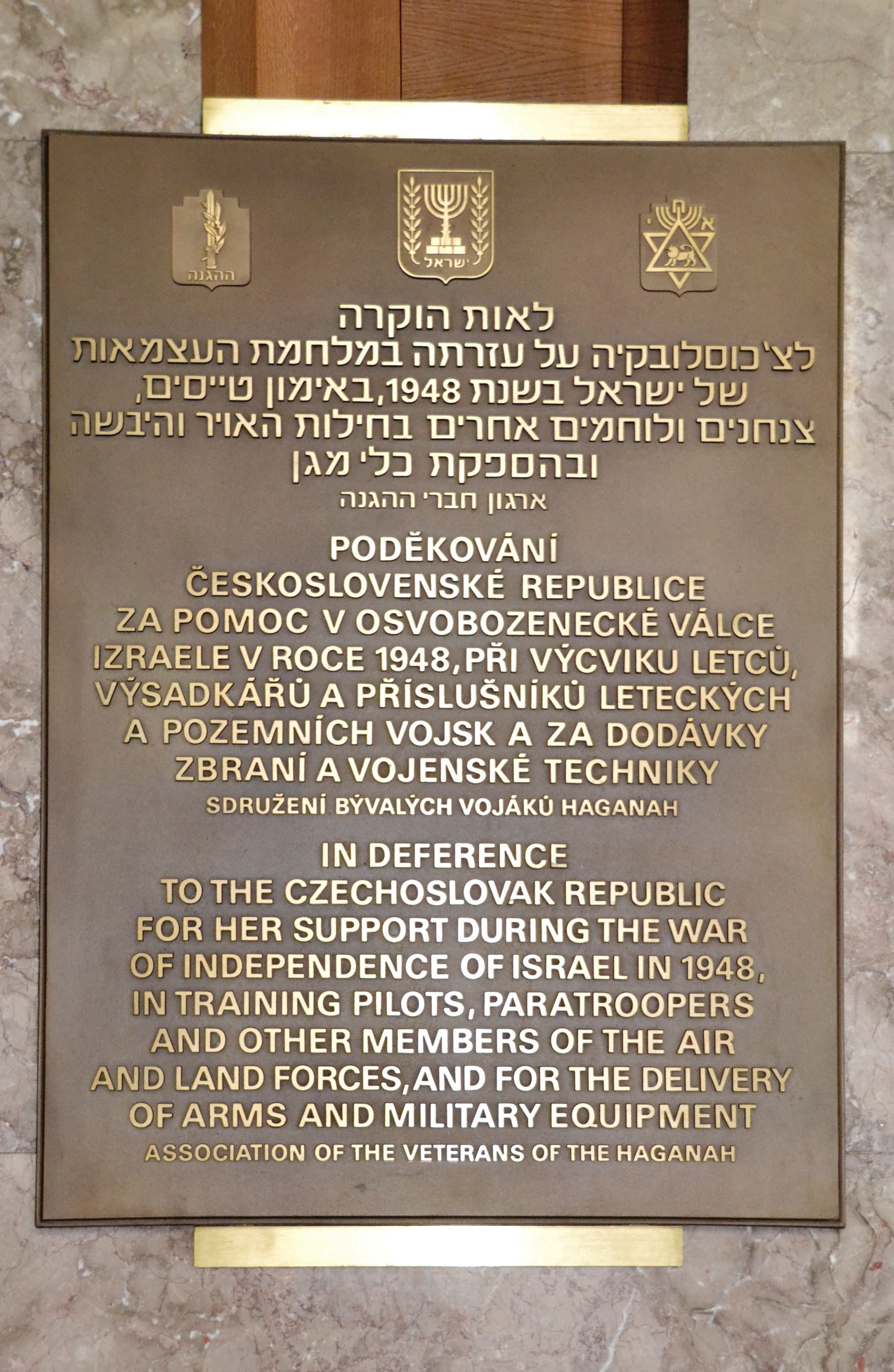 Plaque for the Czech support for Israel in 1948 in the Army Museum Žižkov (Prague).